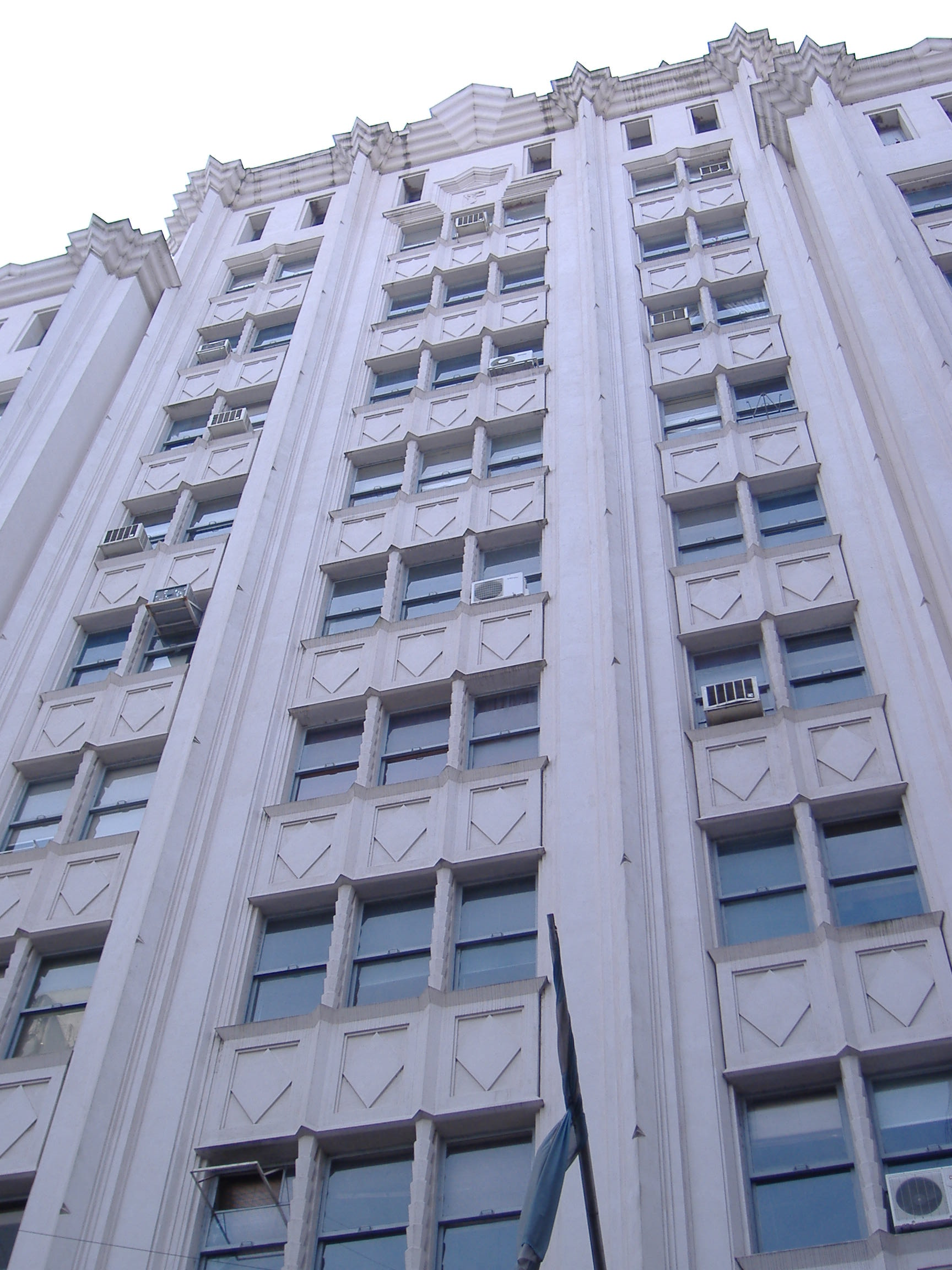 Palacio Minetti, an Art Deco building in downtown Rosario, Argentina